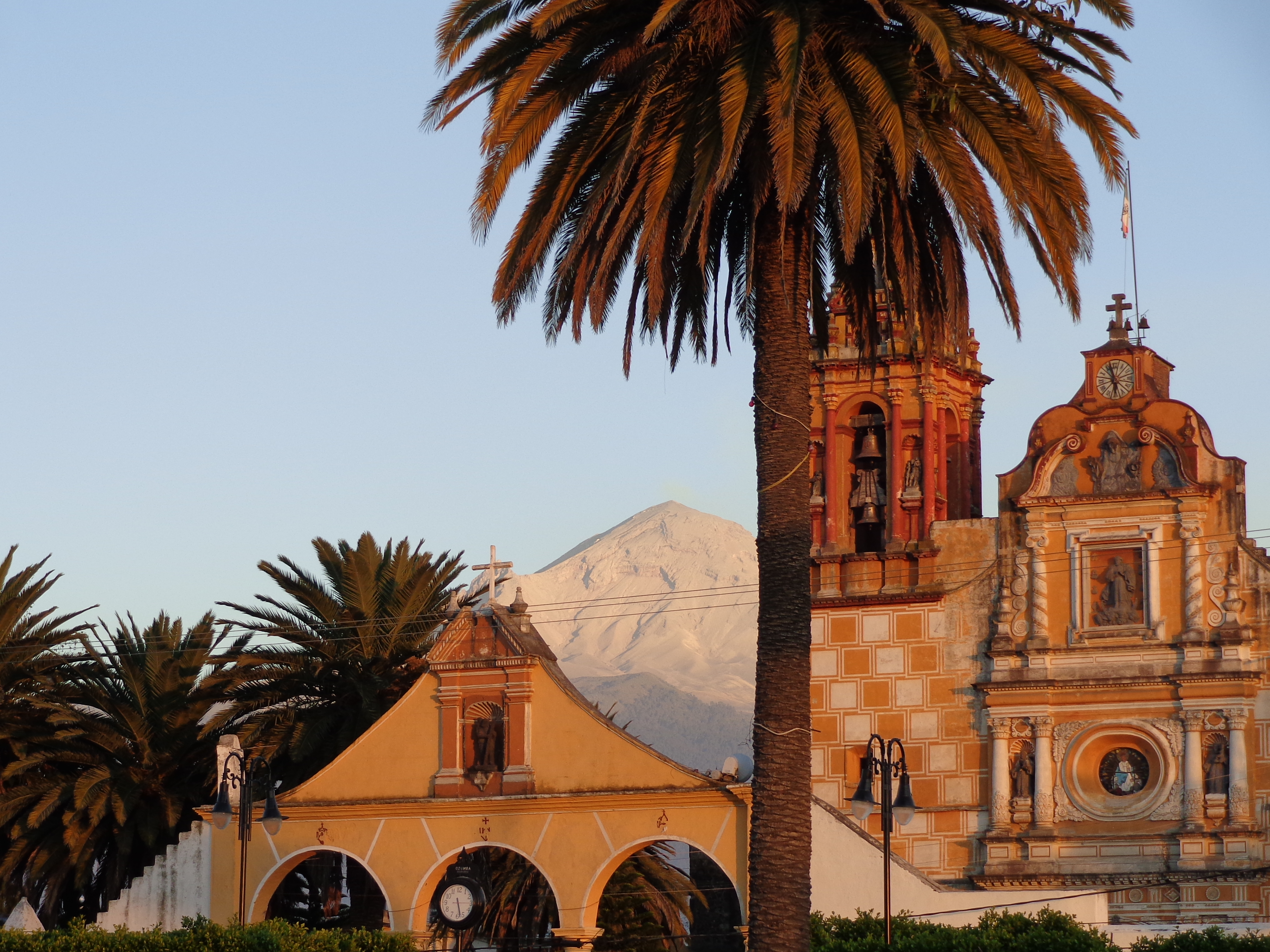 Centro de Ozumba, ex-convento y parroquia inmaculada concepción